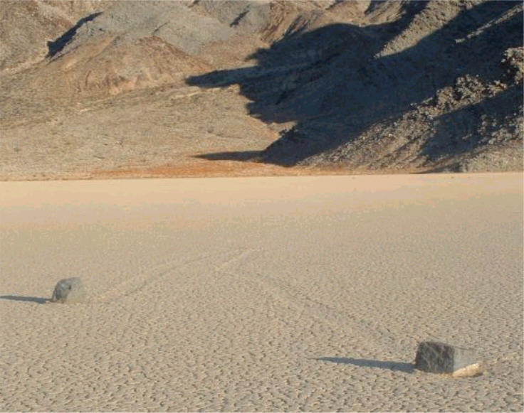 Picture of two rocks on Racetrack Playa in Death Valley. Notice the mysterious groves leading away from the stones.